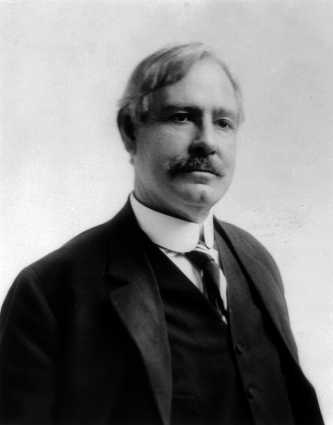 John J. Boyle, American sculptor